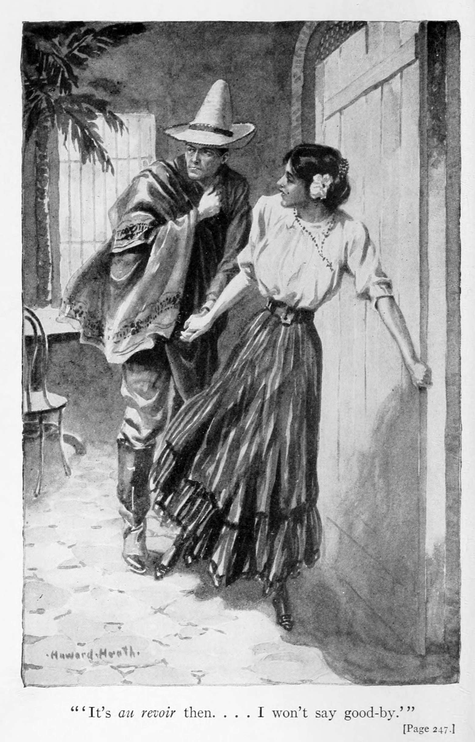 Frontpiece Illustration by Howard Heath (1879-1969) for Desmond Rourke, Irishman, a 1911 Novel by John Haslette Vahey (1881-1938)